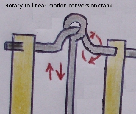 A hand drawn schematic of a rotary to linear conversion crank. The schematic was based on an image at (see the Cape Verde windpump)